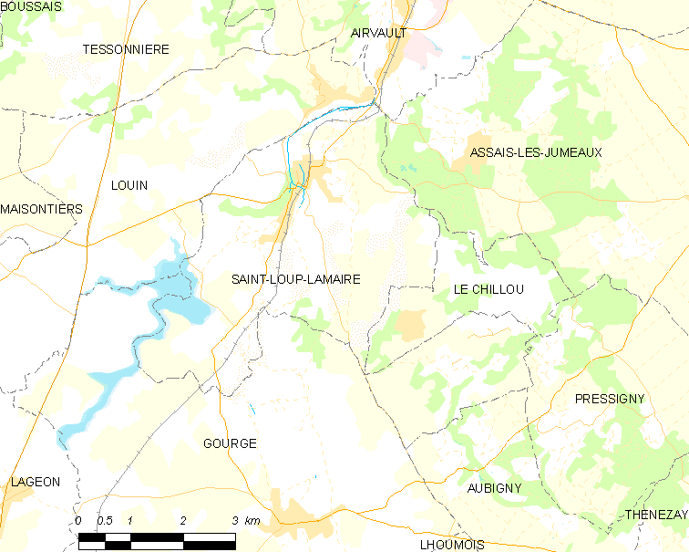 Map of French municipality Saint-Loup-Lamairé